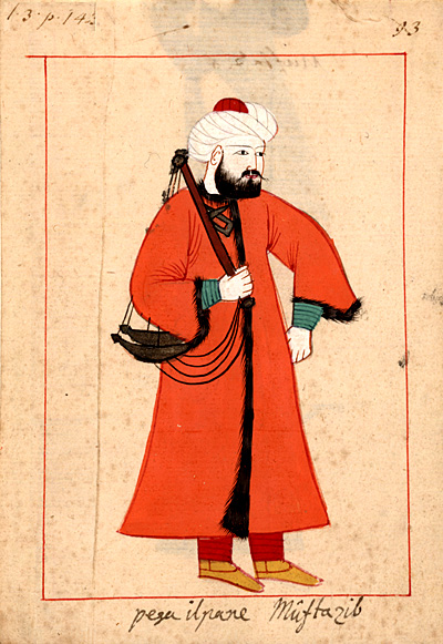 "Pesa il pane Mustazib" -- Muhtasib (Islamic market inspector) weighs the bread. Pictures from the Ralamb Costume Book, 1657.